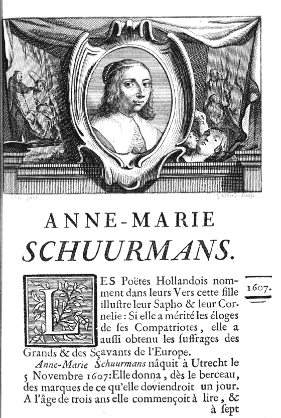 The Lives of Flemish, German, and Dutch painters, Volume II, p.121 Anna Maria van Schurman (1607–1678) Painter biographies by John-Baptist Descamps, comprising four volumes, 1753-1764